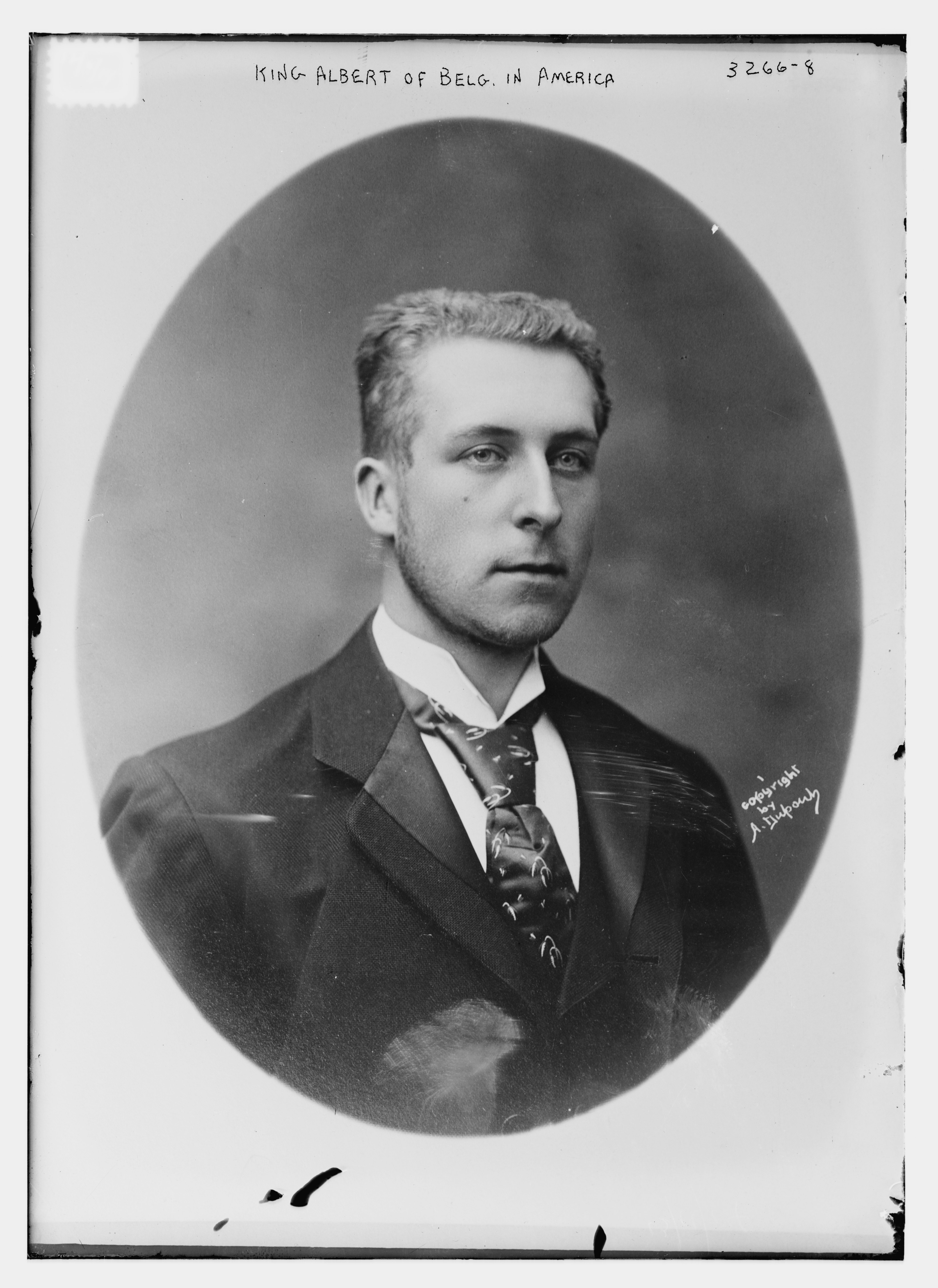 Title: King Albert of Belg. [i.e., Belgium] in America Abstract/medium: 1 negative : glass ; 5 x 7 in. or smaller.